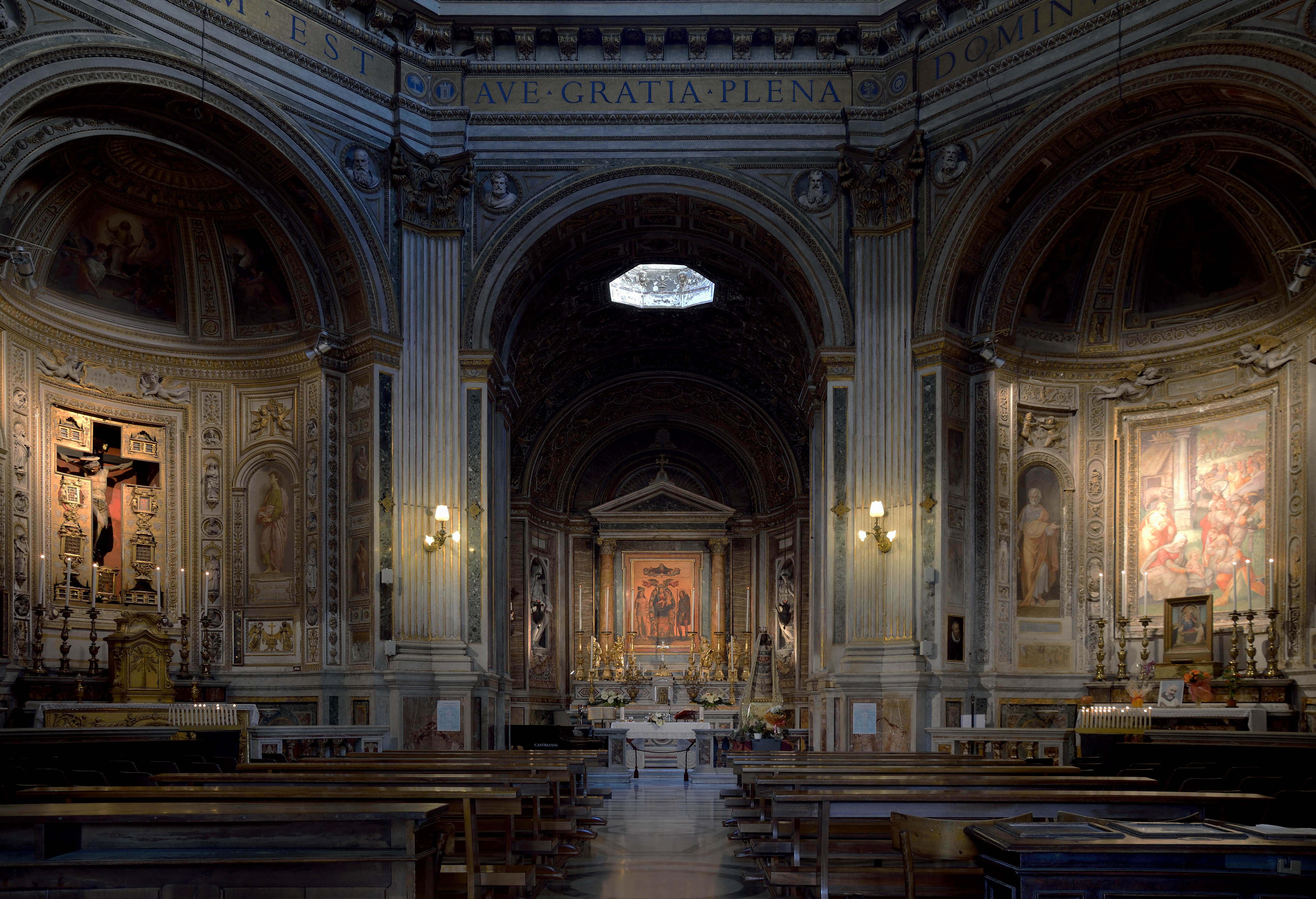 Santa Maria di Loreto (Rome) - Intern